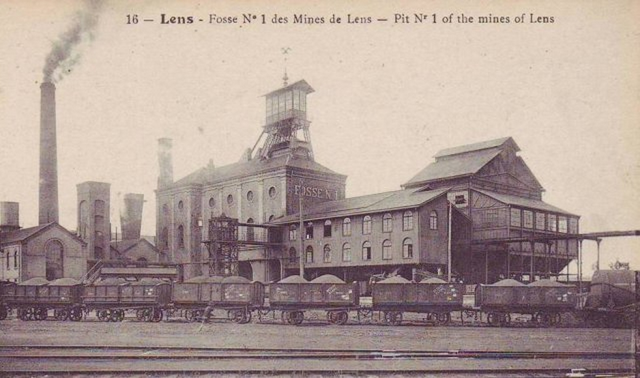 Coalpit n° 1, Compagnie des mines de Lens, Lens, Pas-de-Calais, France.